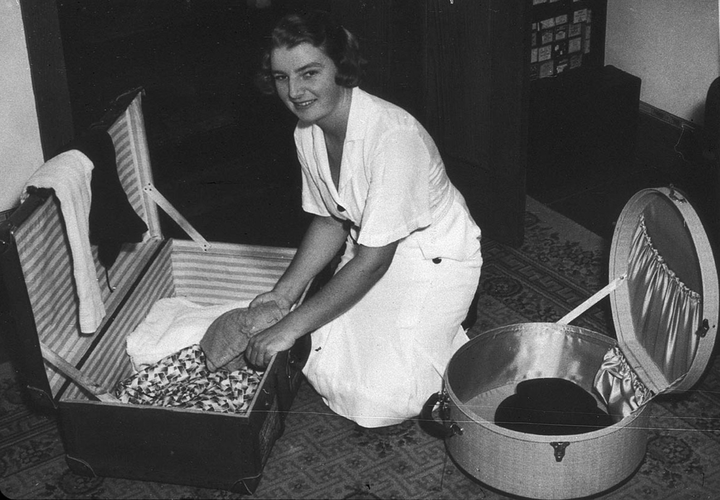 Australian tennis player Thelma Coyne packing for her overseas tour as a member of the Australian Women's Tennis Team at her Maroubra home - Sydney, NSW